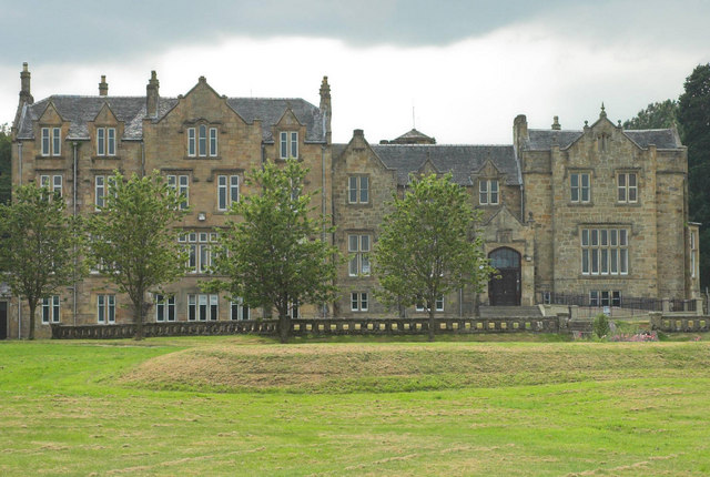 Template:Scottish